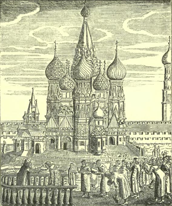 Saint Basil's Cathedral, Moscow (1555-1561)